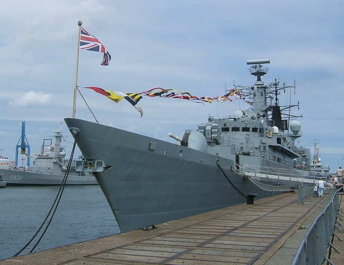 The HMS Cornwall (F99) seen here apparently at Zeebrugge, Belgium, on 9 July 2006.